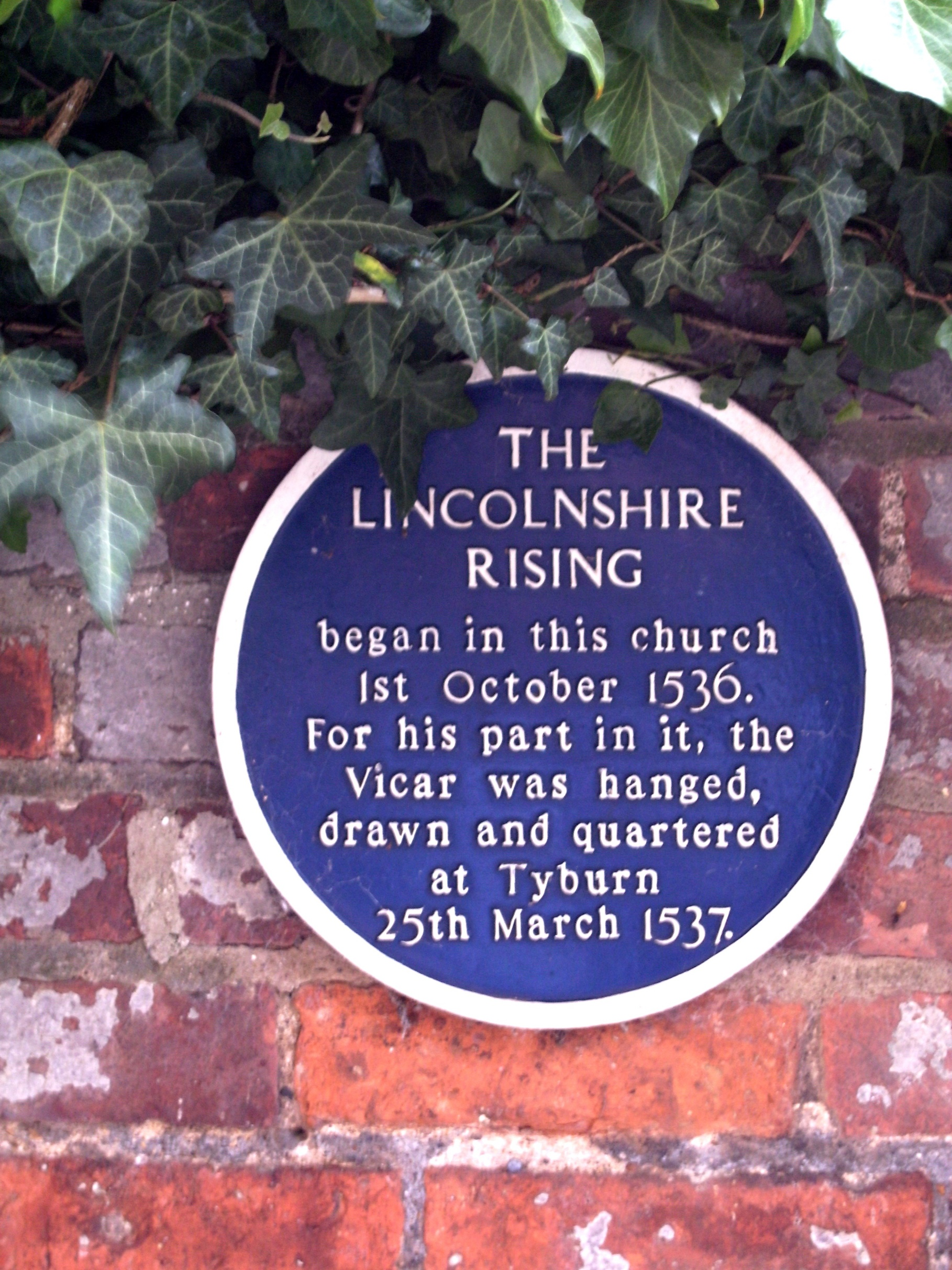 Plaque commemorationg Lincolnshire Rising of 1536, Louth, Lincolnshire, UK.